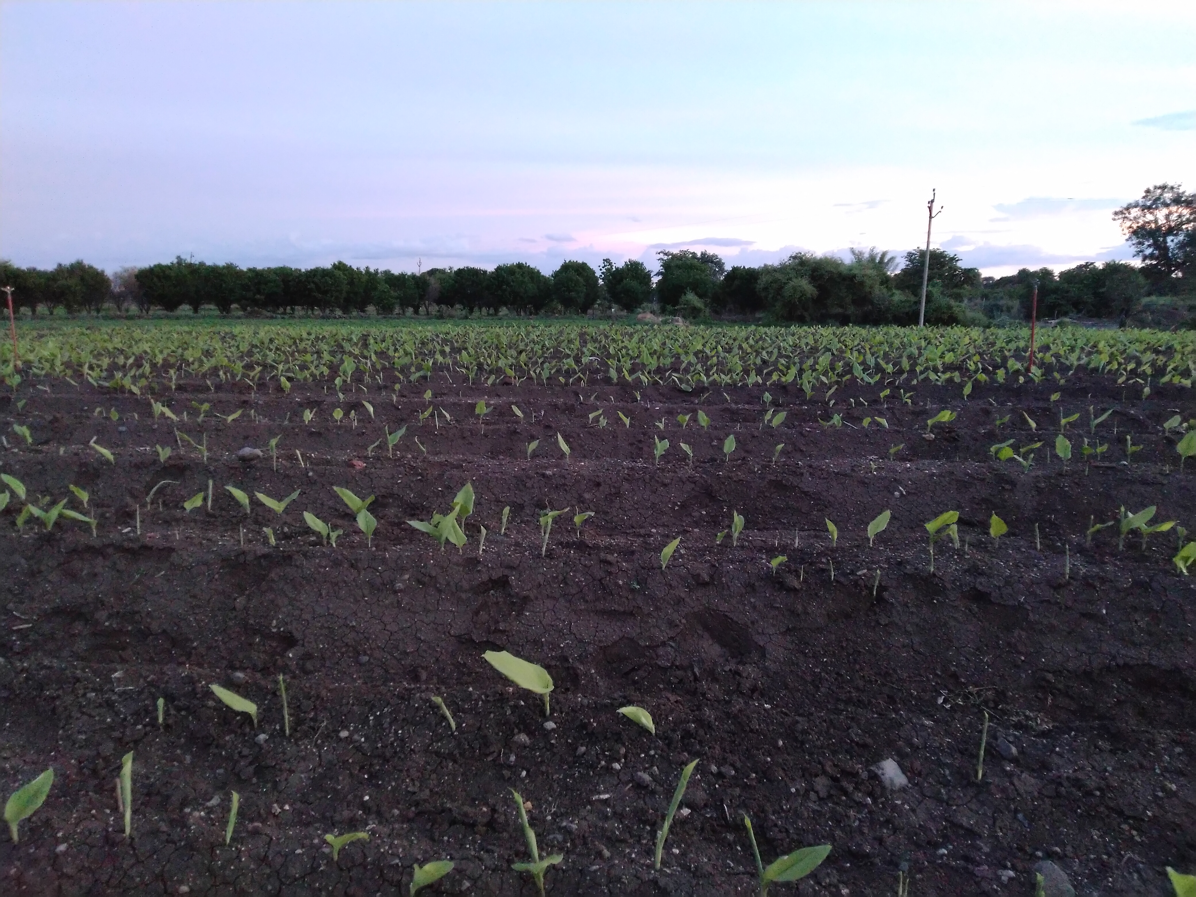 Growing turmeric field in the area of Jamthi Kh. village, Tq. & Dist. Hingoli, Maharashtra on Deccan Plateau, India.